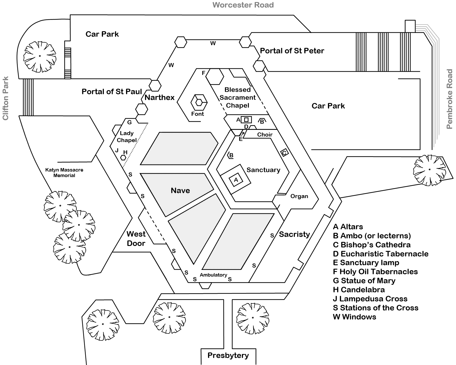 Clifton Cathedral, Clifton Park, Bristol BS8 3BX, United Kingdom